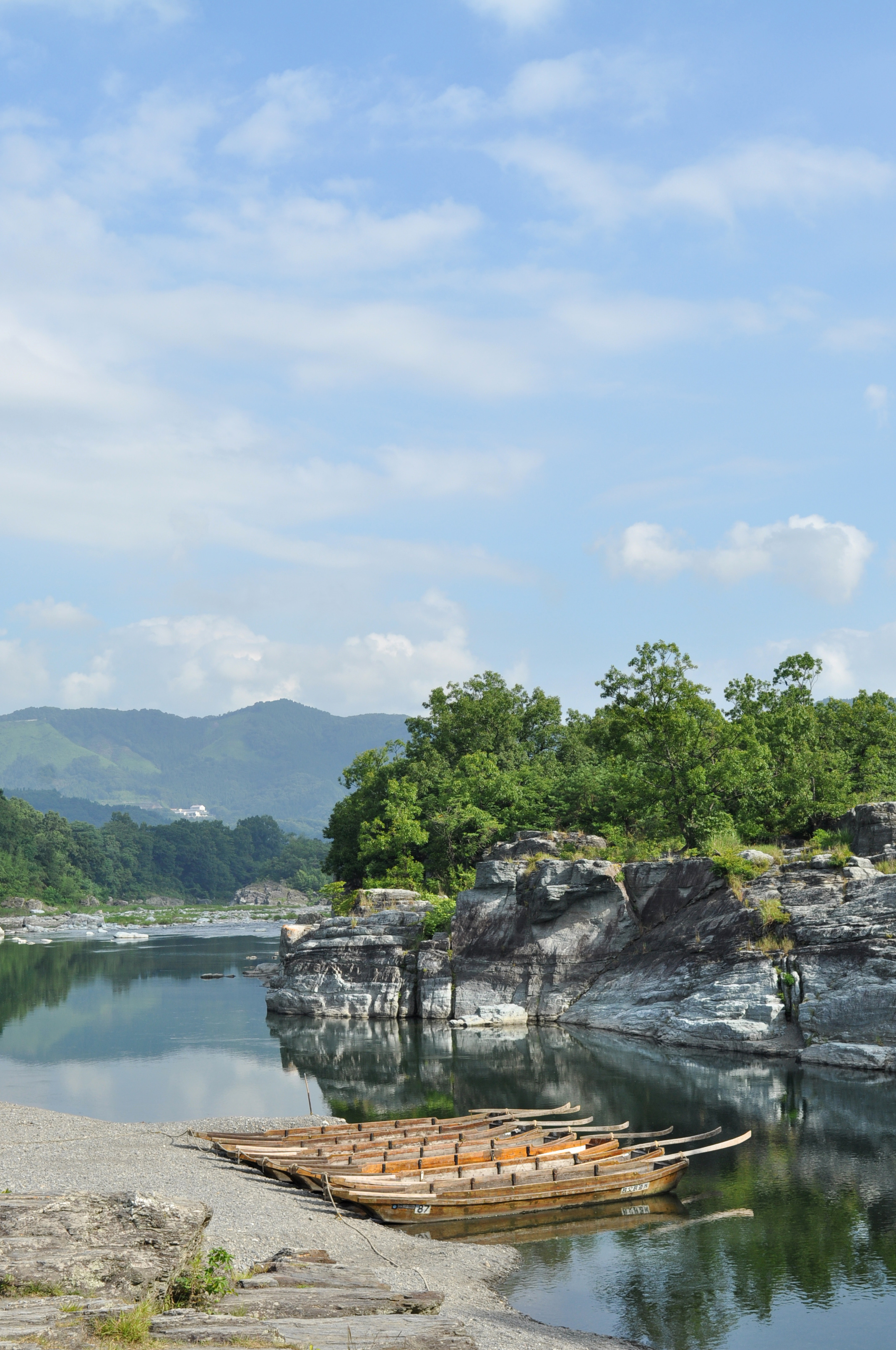 Nagatoro Valley